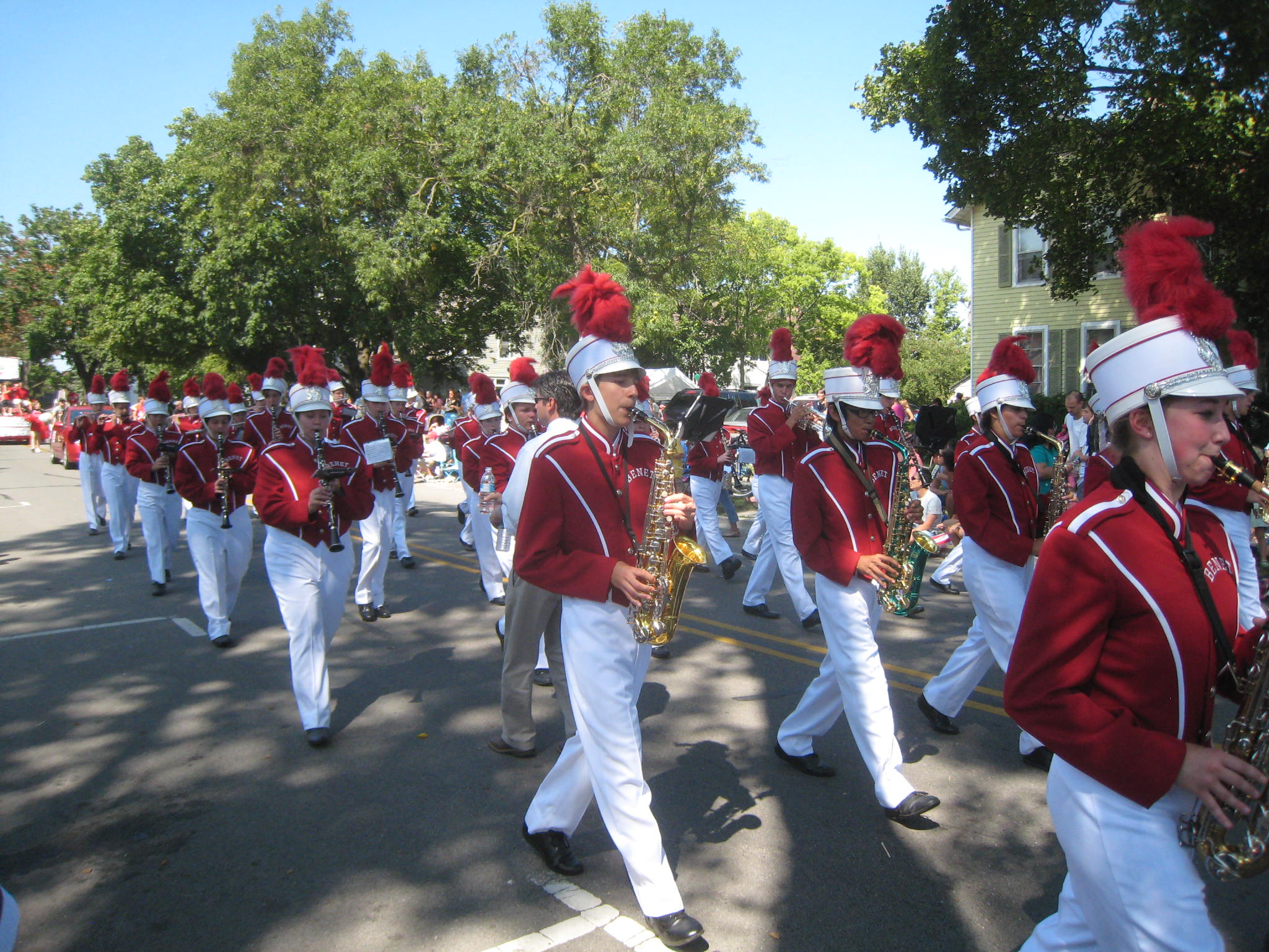 The Benet Academy Marching Redwings march along the Last Fling parade route in Naperville, Illinois, USA.